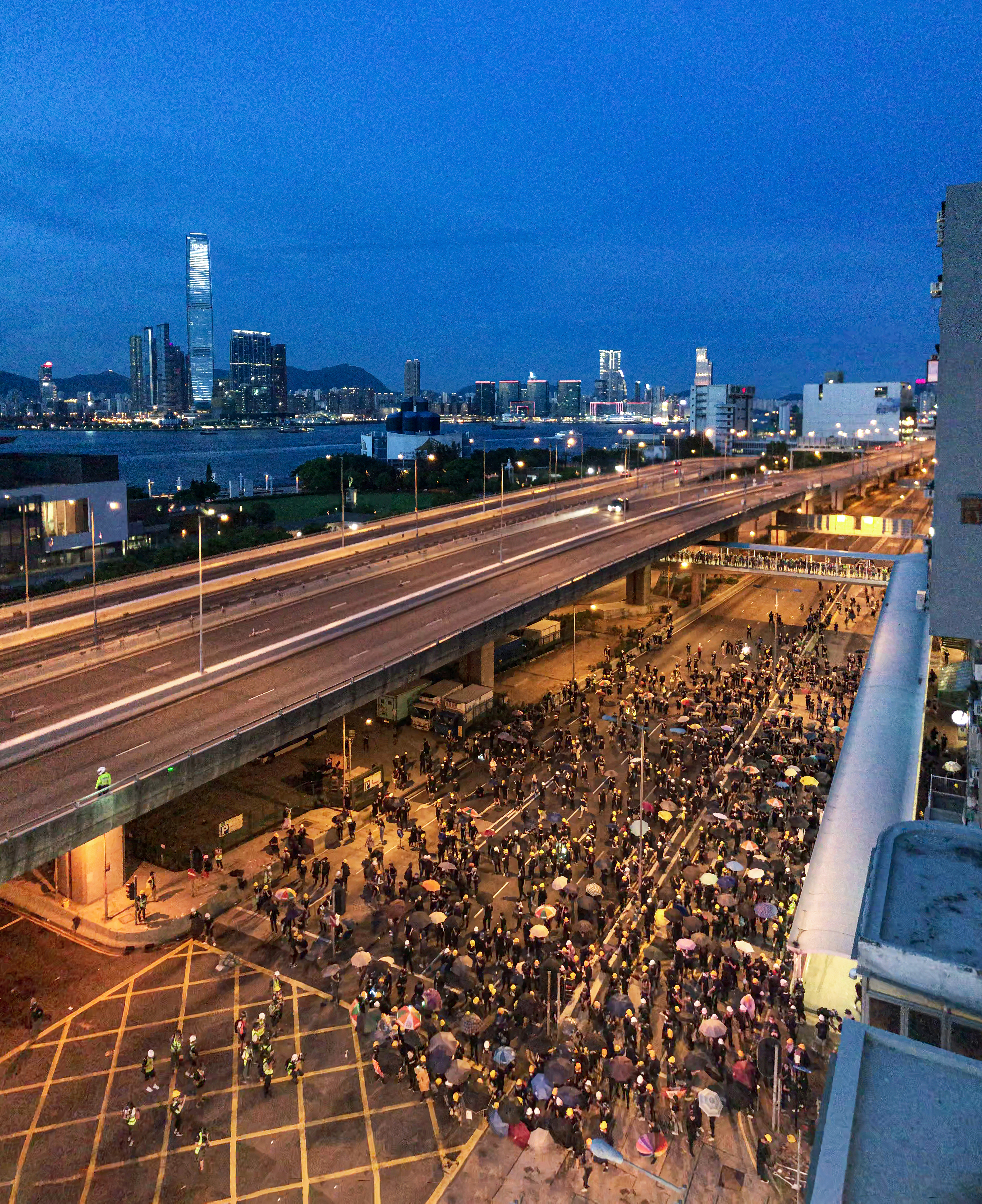 Westpoint_Panorama1-edit